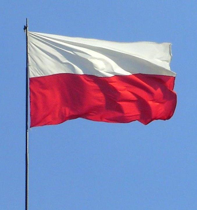 A Polish flag fluttering in the wind